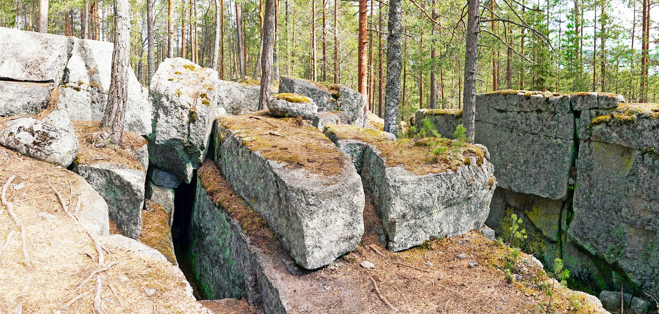 Lullinvuori, Muuratsalo.This photograph was taken with a Sony ILCE-5000